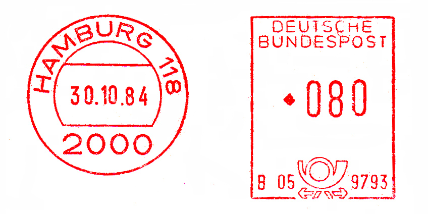 Meter stamp catalog image, Germany type PA3.1